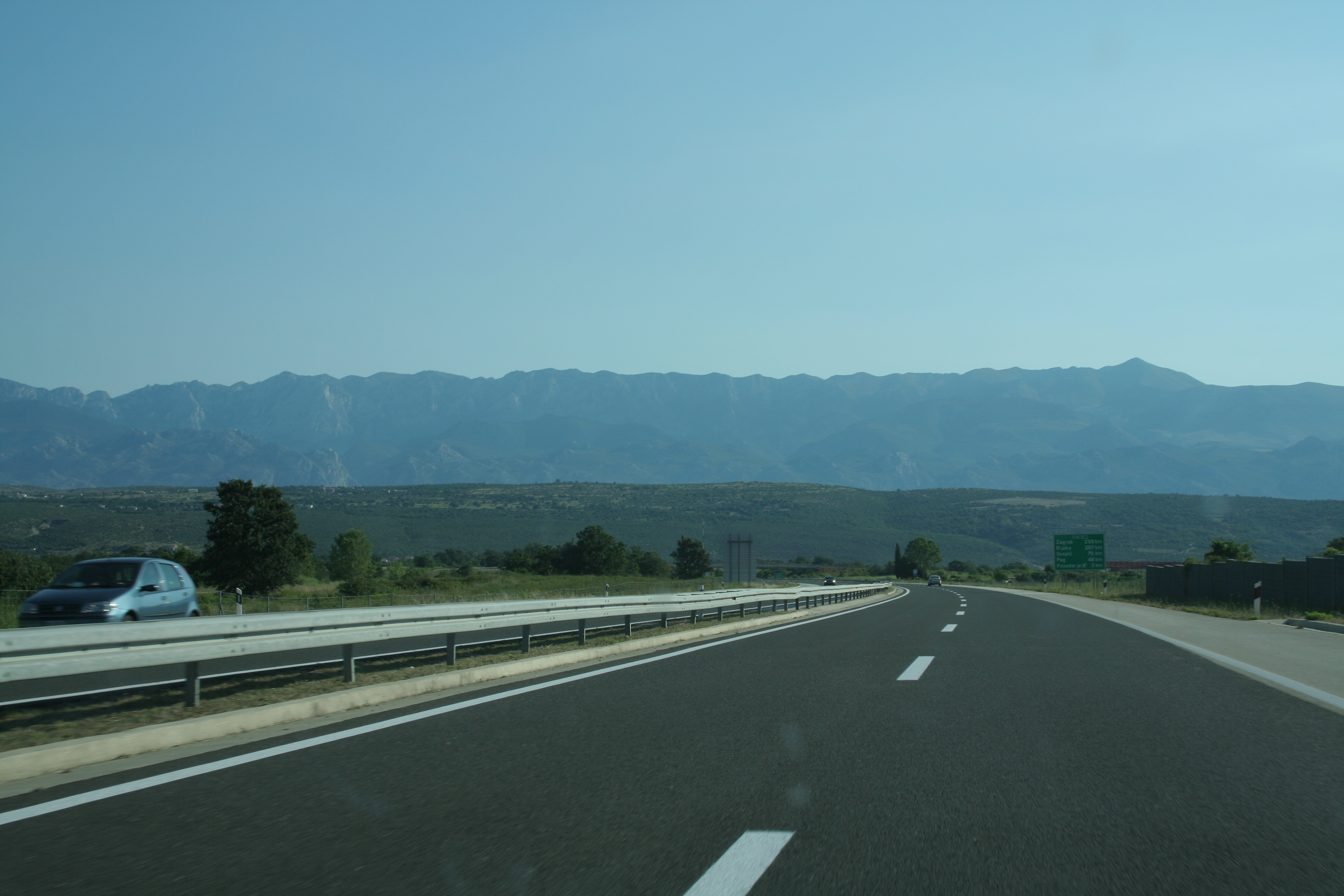 Croatian highway A1 near by Posedarje